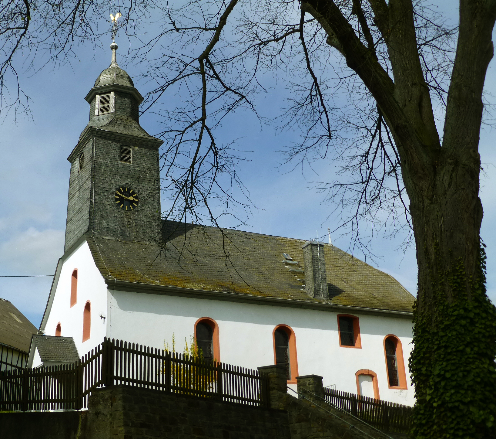 Church of Weyer (Rhein-Lahn-Kreis), Rhineland-Palatinate, Germany.